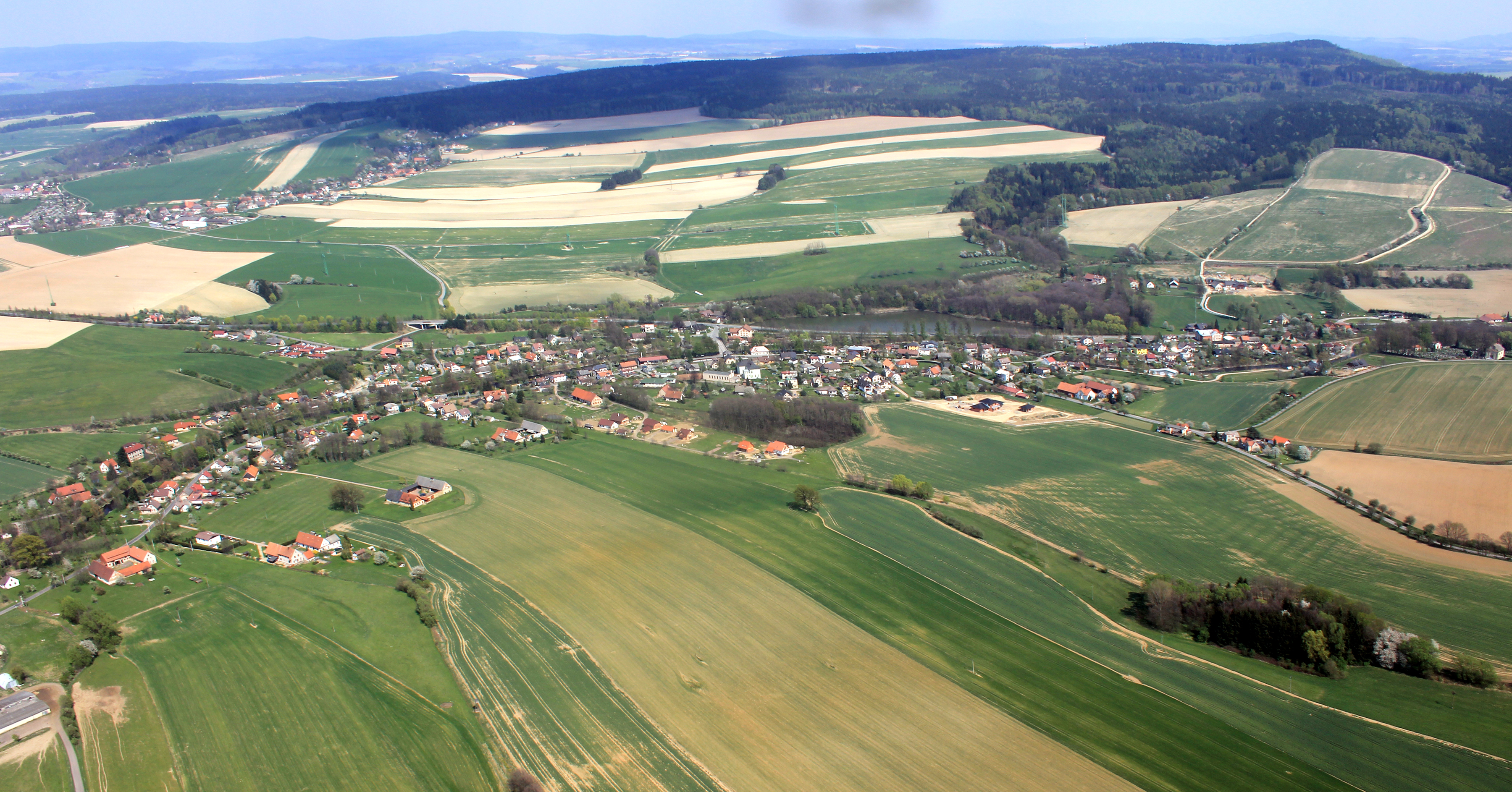 Village Záměl near Potštejn from air, eastern Bohemia, Czech Republic